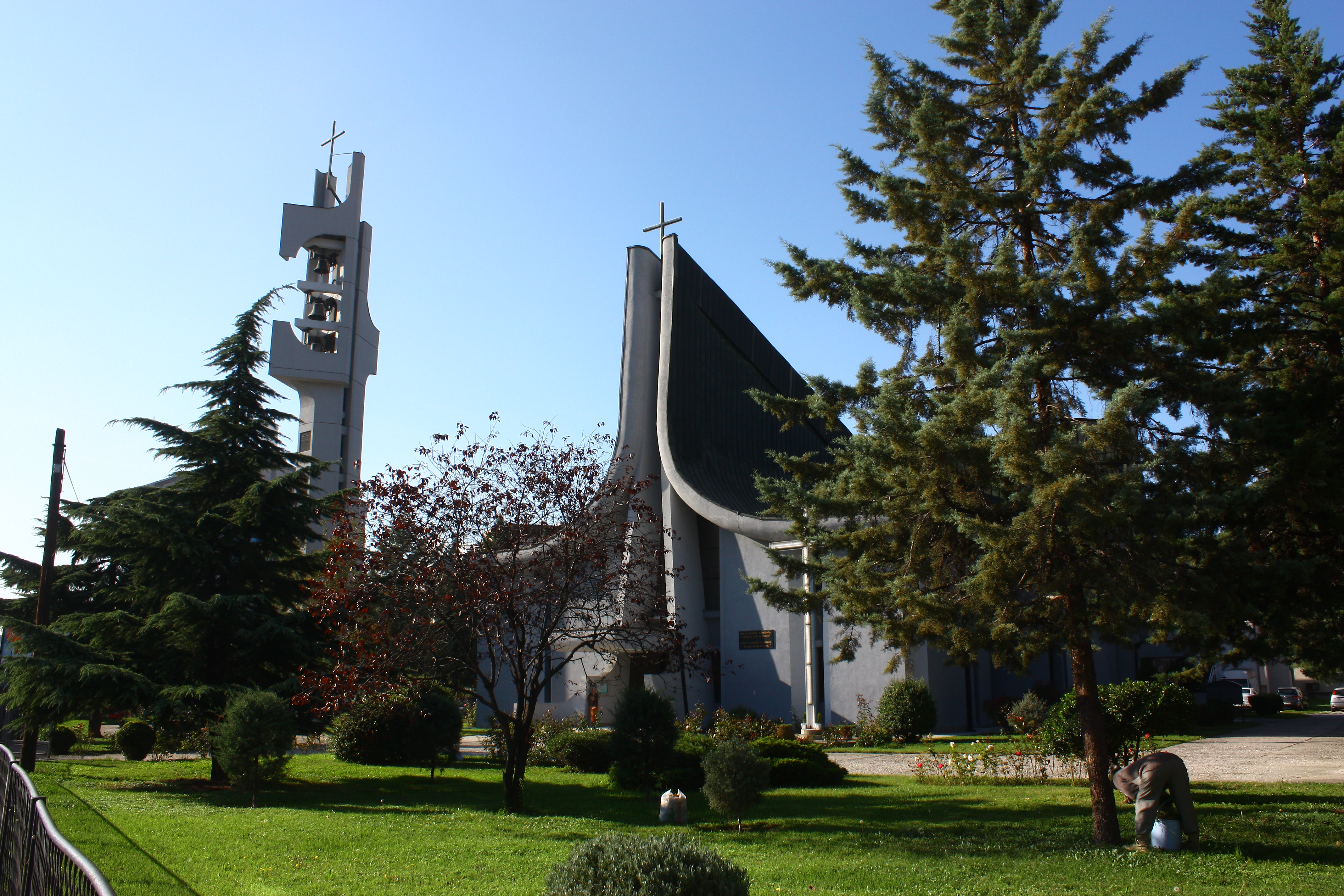 Catholic church Macedonia Ова е фотографија на споменик на културата во Македонија со типски код: А01This is a a photo of a cultural monument in North Macedonia with type id: А01